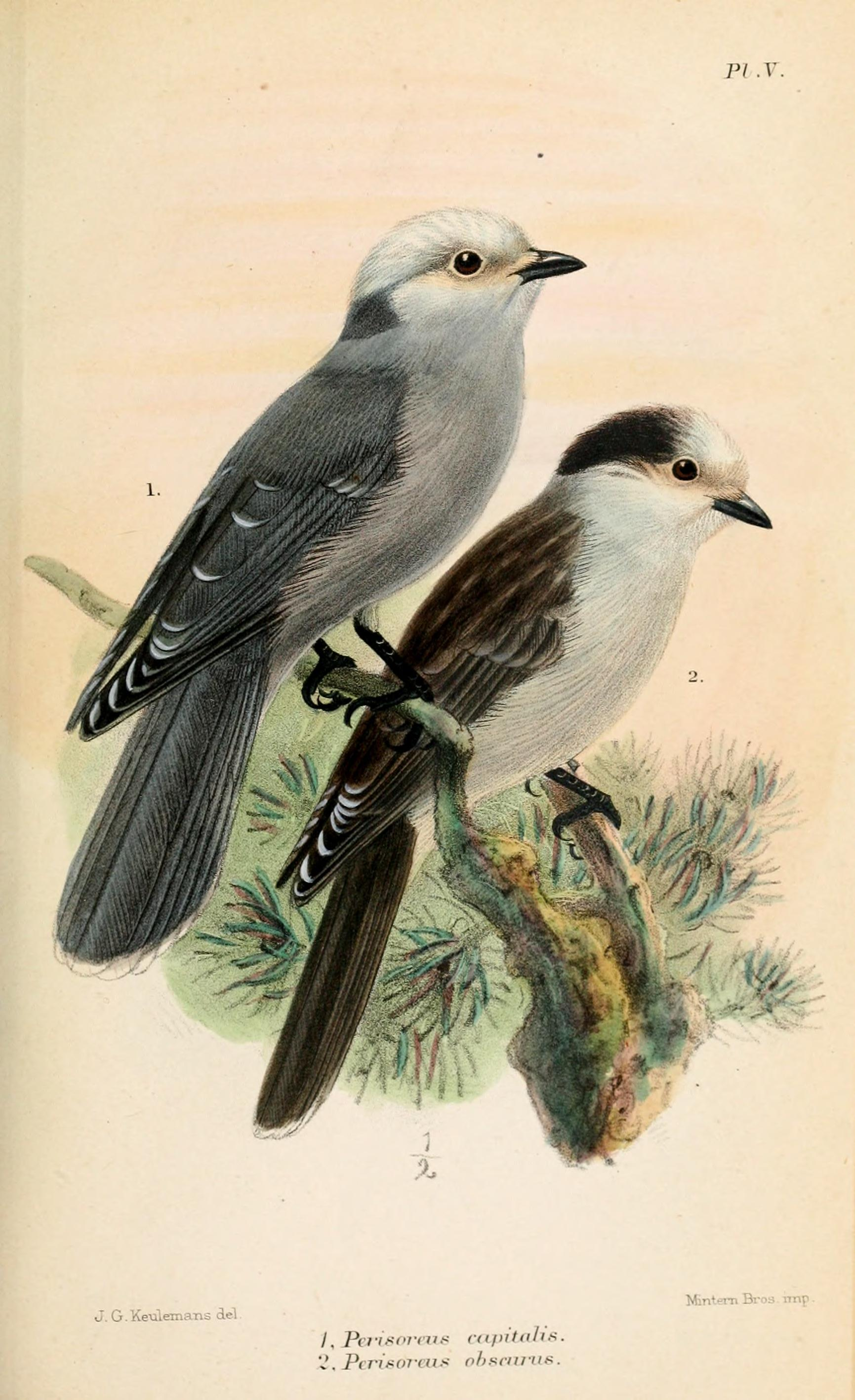 Perisoreus capitalis = Perisoreus canadensis capitalis (left); and Perisoreus obscurus = Perisoreus canadensis obscurus (right); both subspecies of the Gray Jay (Perisoreus canadensis)